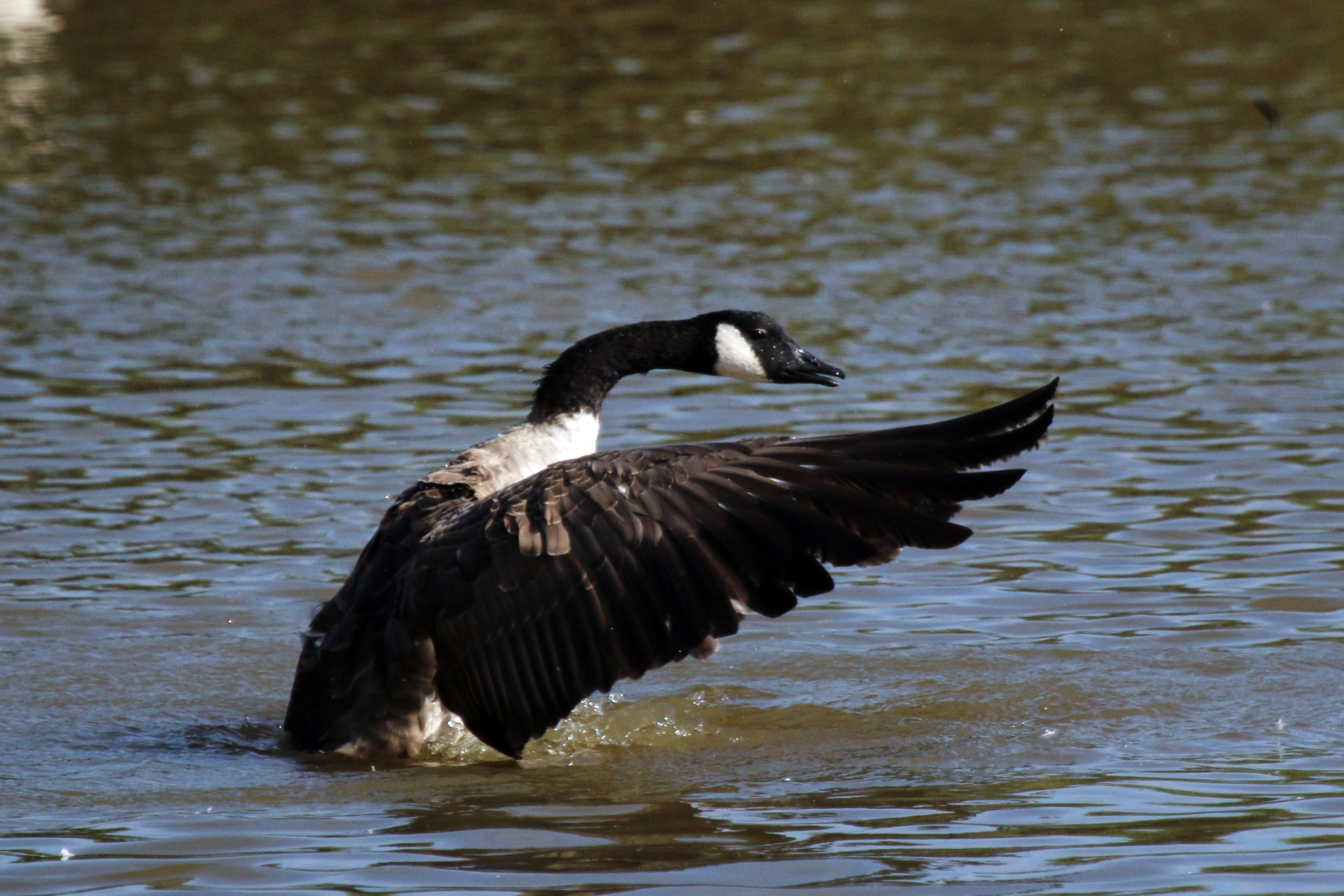 Canada goose (branta canadensis) cleaning feathers